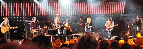 The Fray in concert